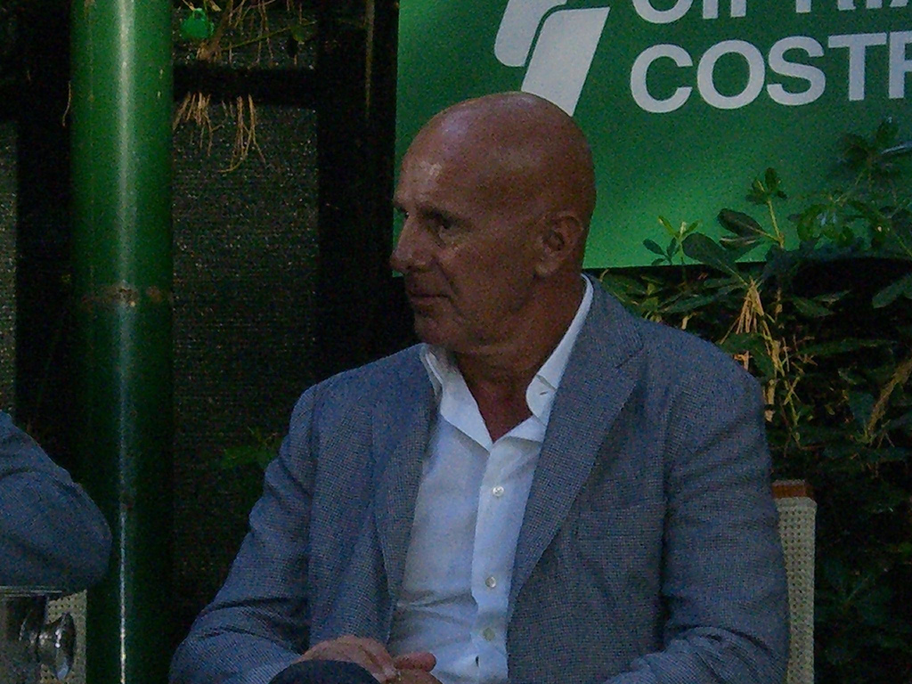 Arrigo Sacchi won back-to-back titles with A.C. Milan in 1989 and 1990.